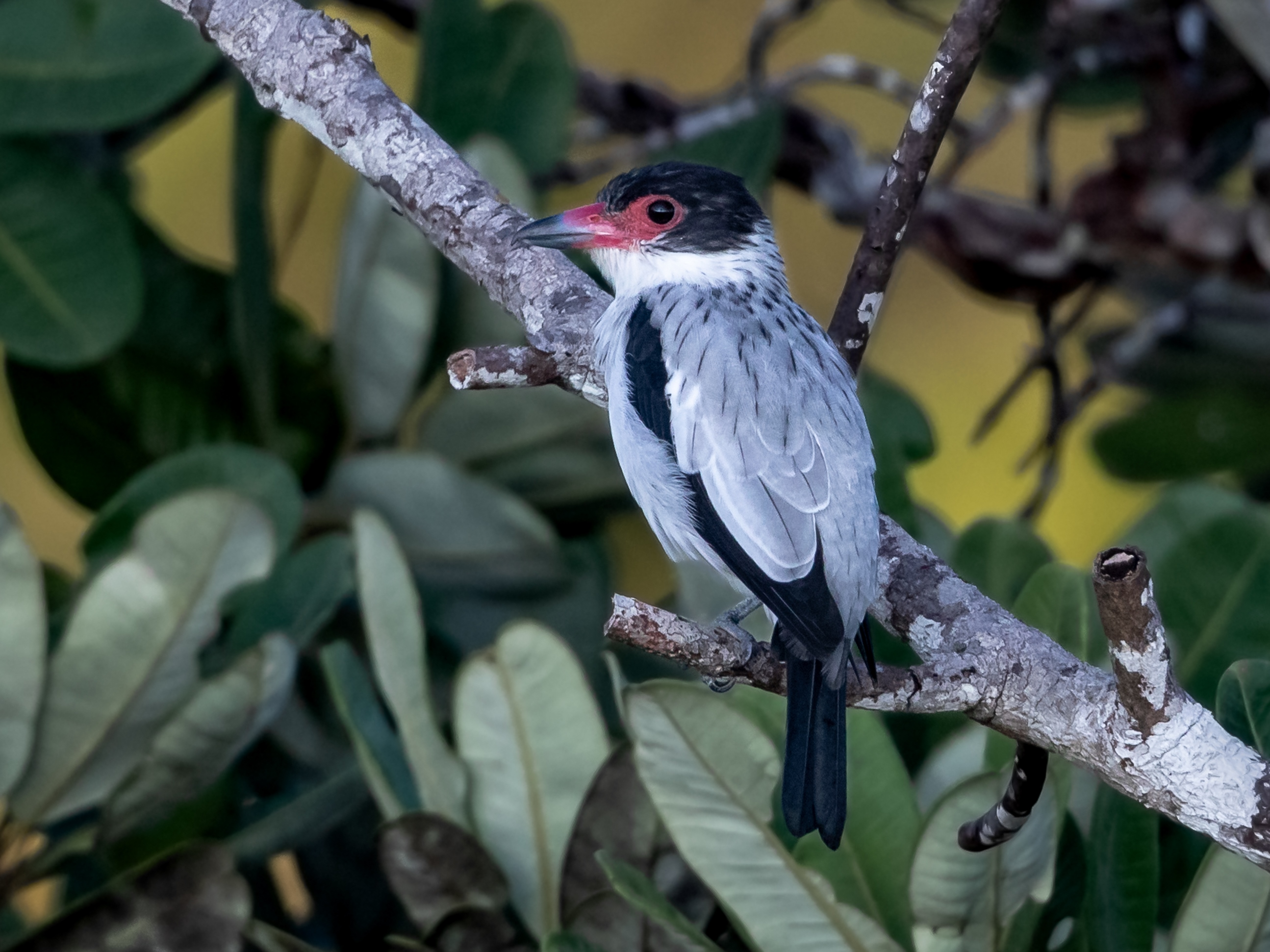 Black-tailed Tityra (female); Manaus, Amazonas, Brazil